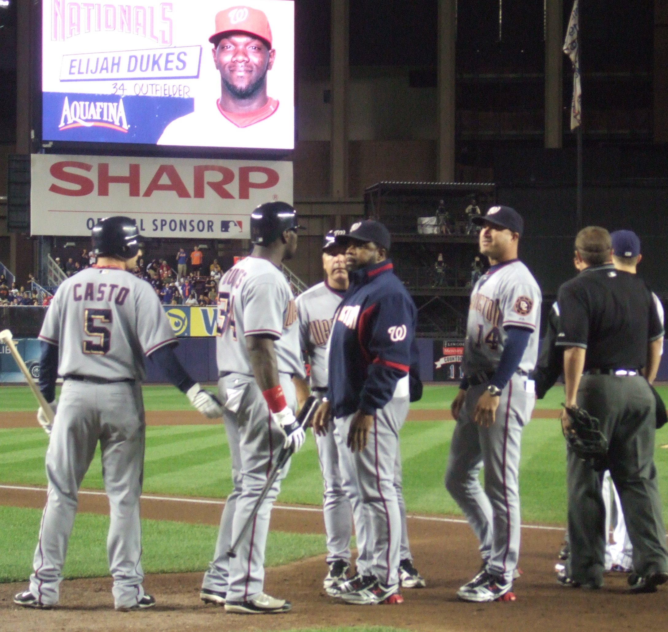 Professional baseball player Elijah Dukes of the Washington Nationals being calmed down by coach Lenny Harris and manager Manny Acta, in Shea Stadium, 2008-09-10